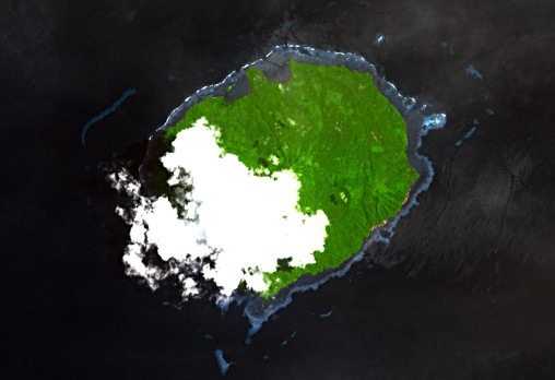 This image (Sat Terra ASTER) shows Unea, Vitu Islands, Bismarck Archipelago.